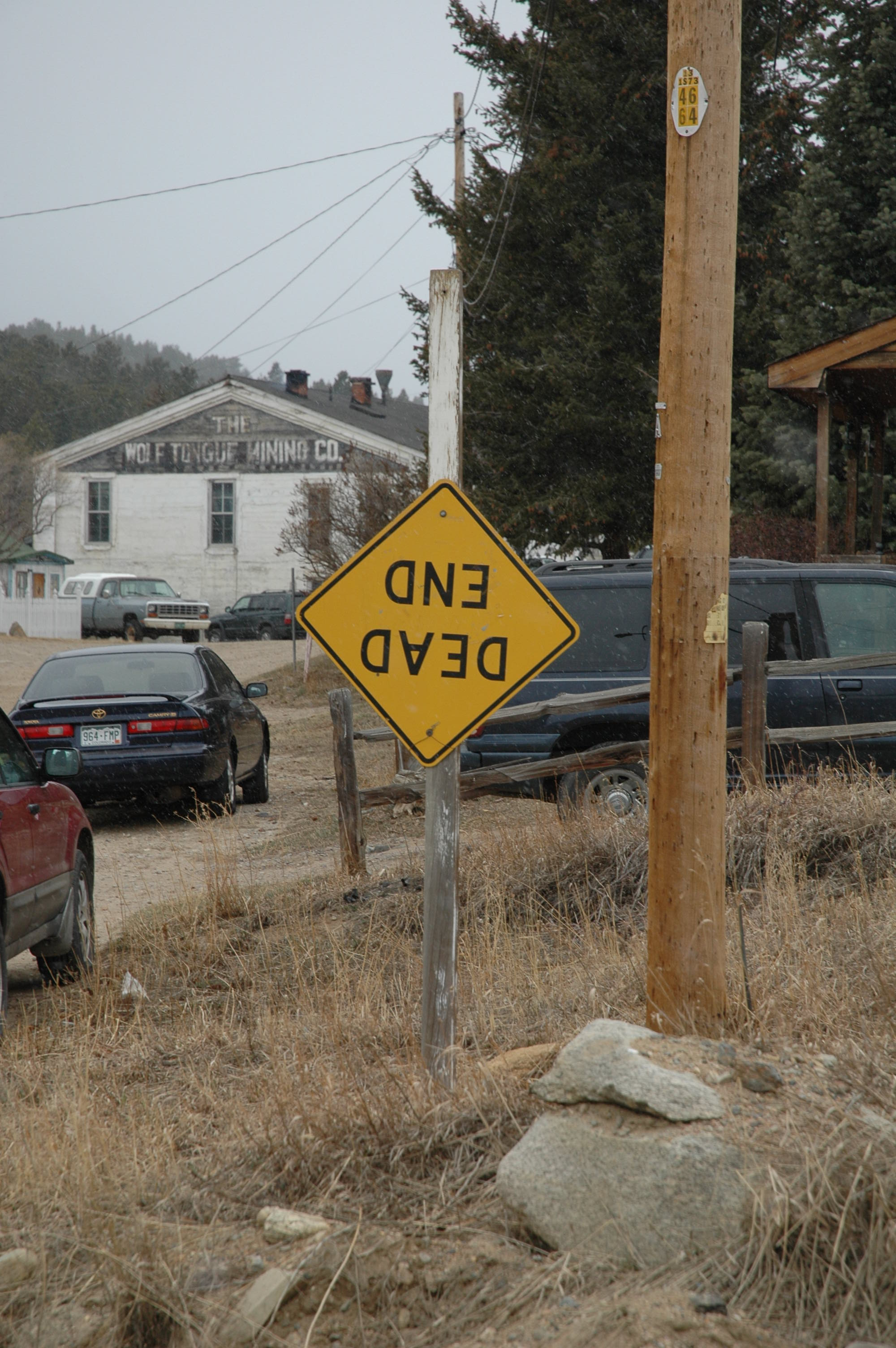 Frozen Dead Guy Days photo